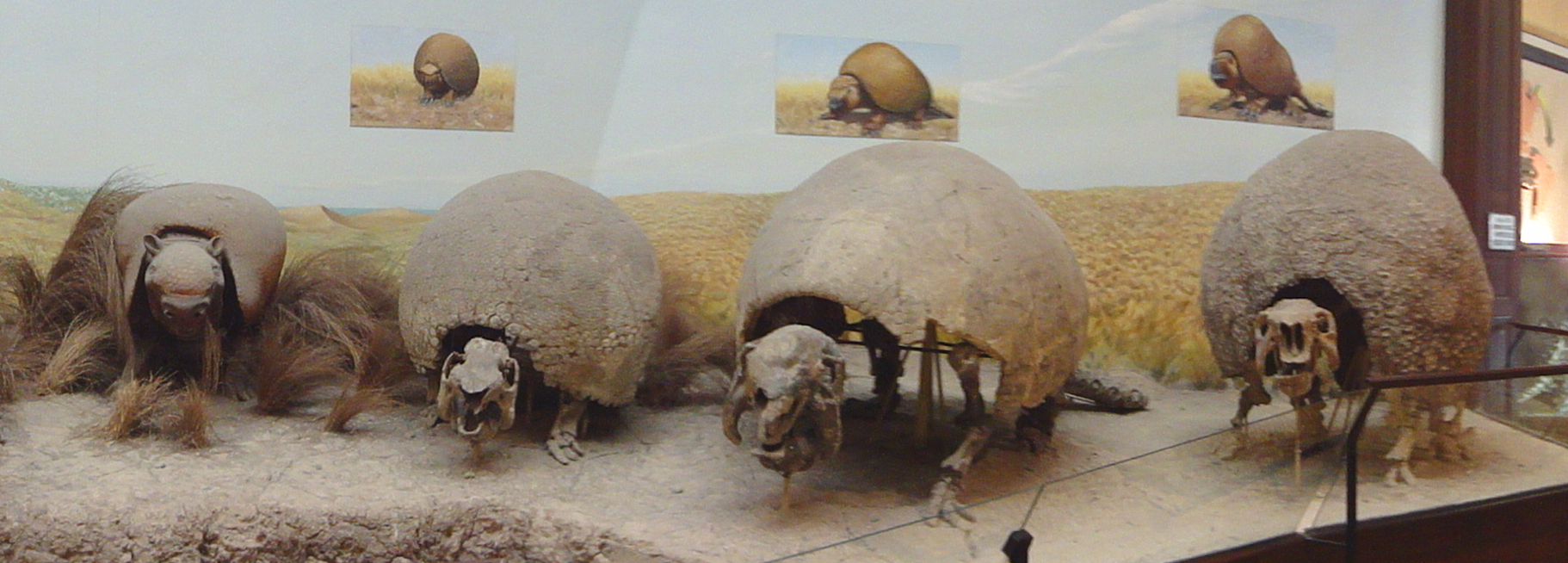 Sclerocalyptus ornatus (reconstrucion) and fossils of Glyptodon clavipes, Panochthus intermedius and Doedicurus clavicaudatus. Colection of Museo de La Plata, Argentina.